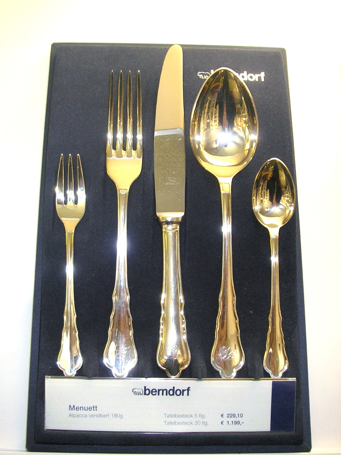 Berndorf company products, at the showcase shop at Wollzeile in Vienna.